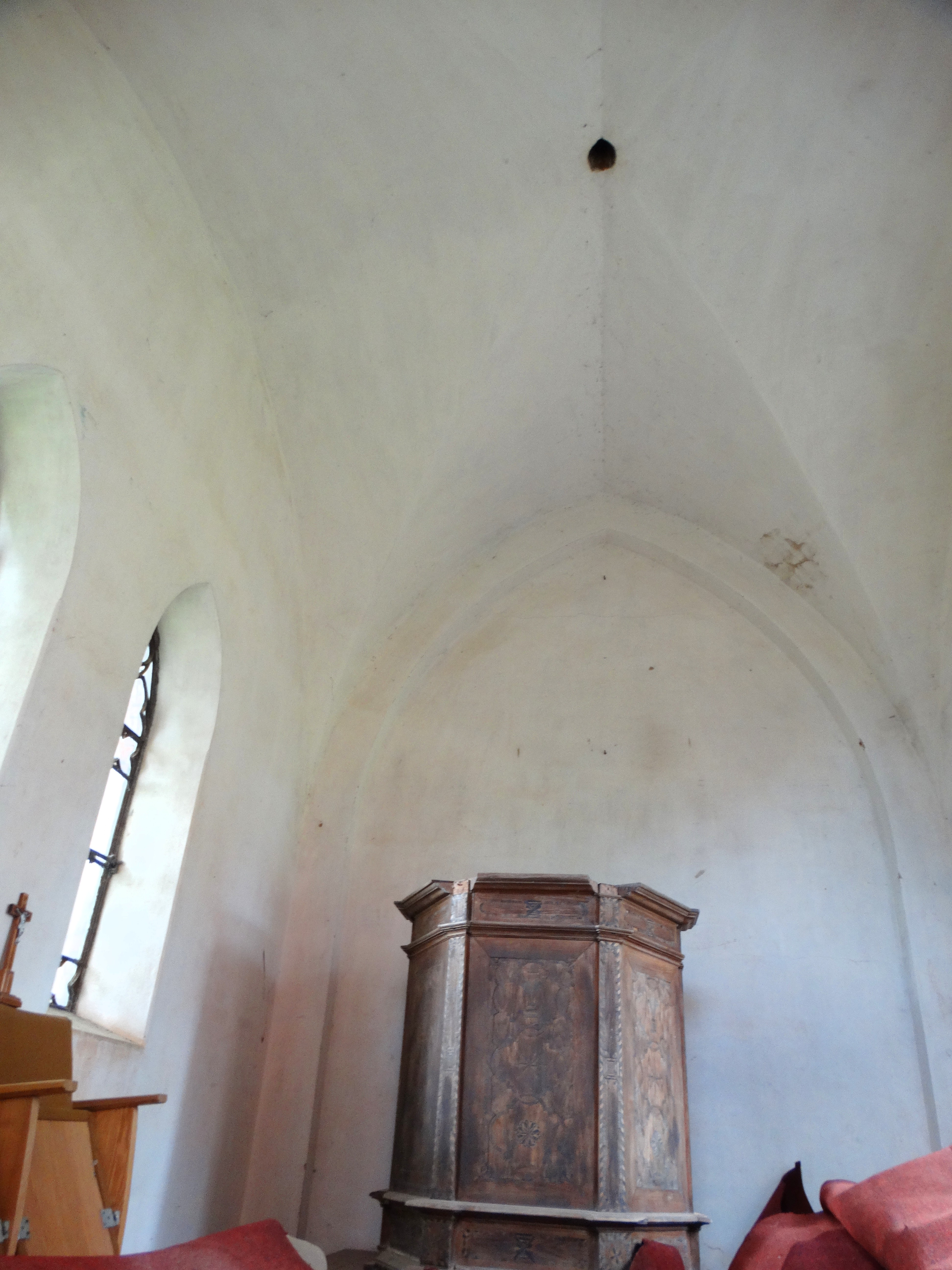 South chapel, Žeimiai churchyard, Jonava district, Lithuania